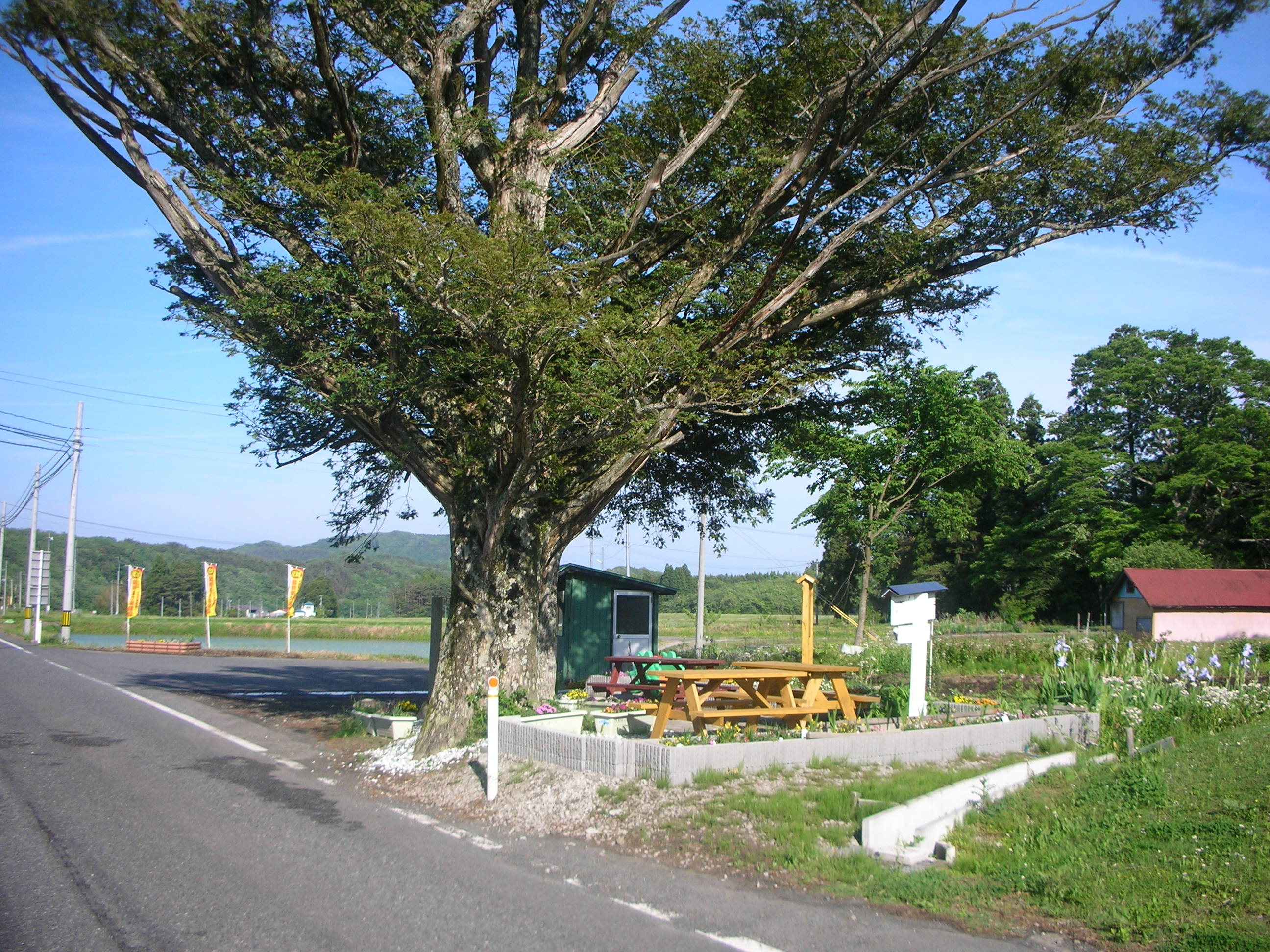 Sawatari no Kaya no ki ("Torreya tree of Sawatari")